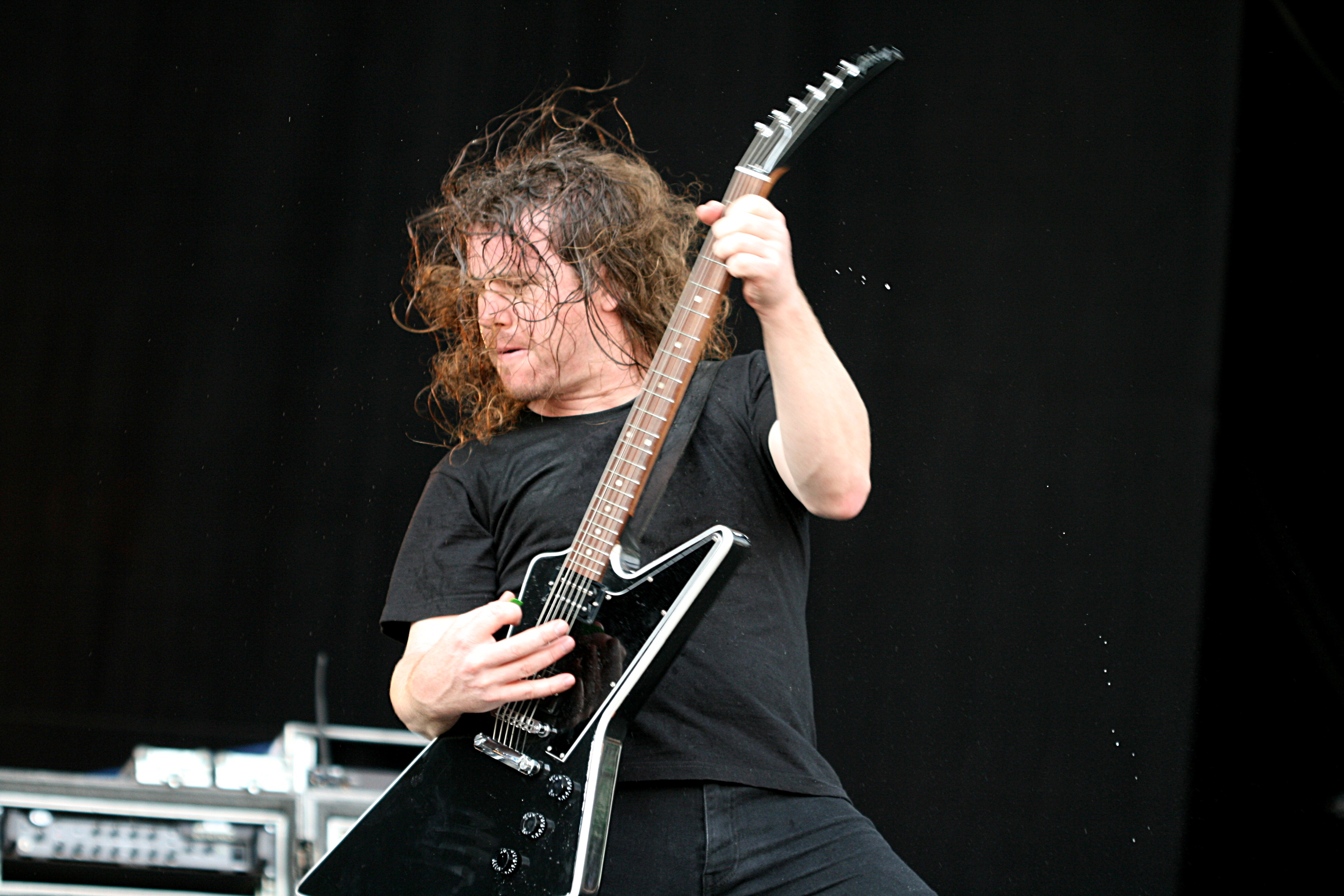 David Roads, guitarist of Airbourne, stands on the Center Stage of Rock im Park-Festival 2013. Festivalsommer This photo was created with the support of donations to Wikimedia Deutschland in the context of the CPB project "Festival Summer".